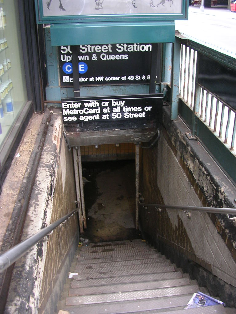 50th Street Station on the IND Eighth Avenue Line in New York.